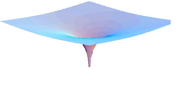 user:Harel from the hebrew wikipedia made it upon my request and gave it a PD licence.